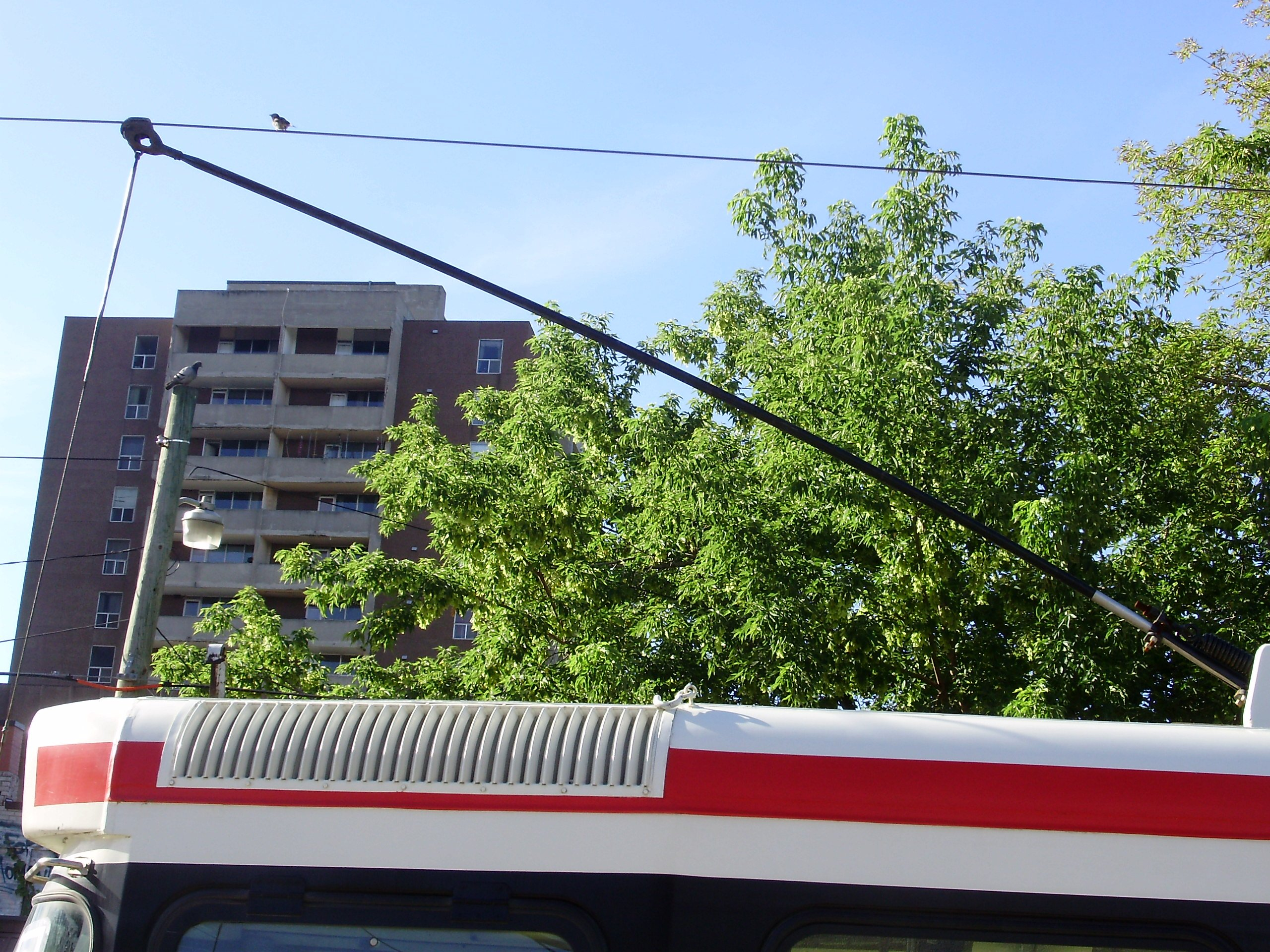 The trolley pole arrangement on a Toronto Transit Commission CLRV streetcar. Toronto's are among the few operating streetcars that receive electric power from overhead wires in this way, though the new Flexity Outlook vehicles are going to use pantograph collection.